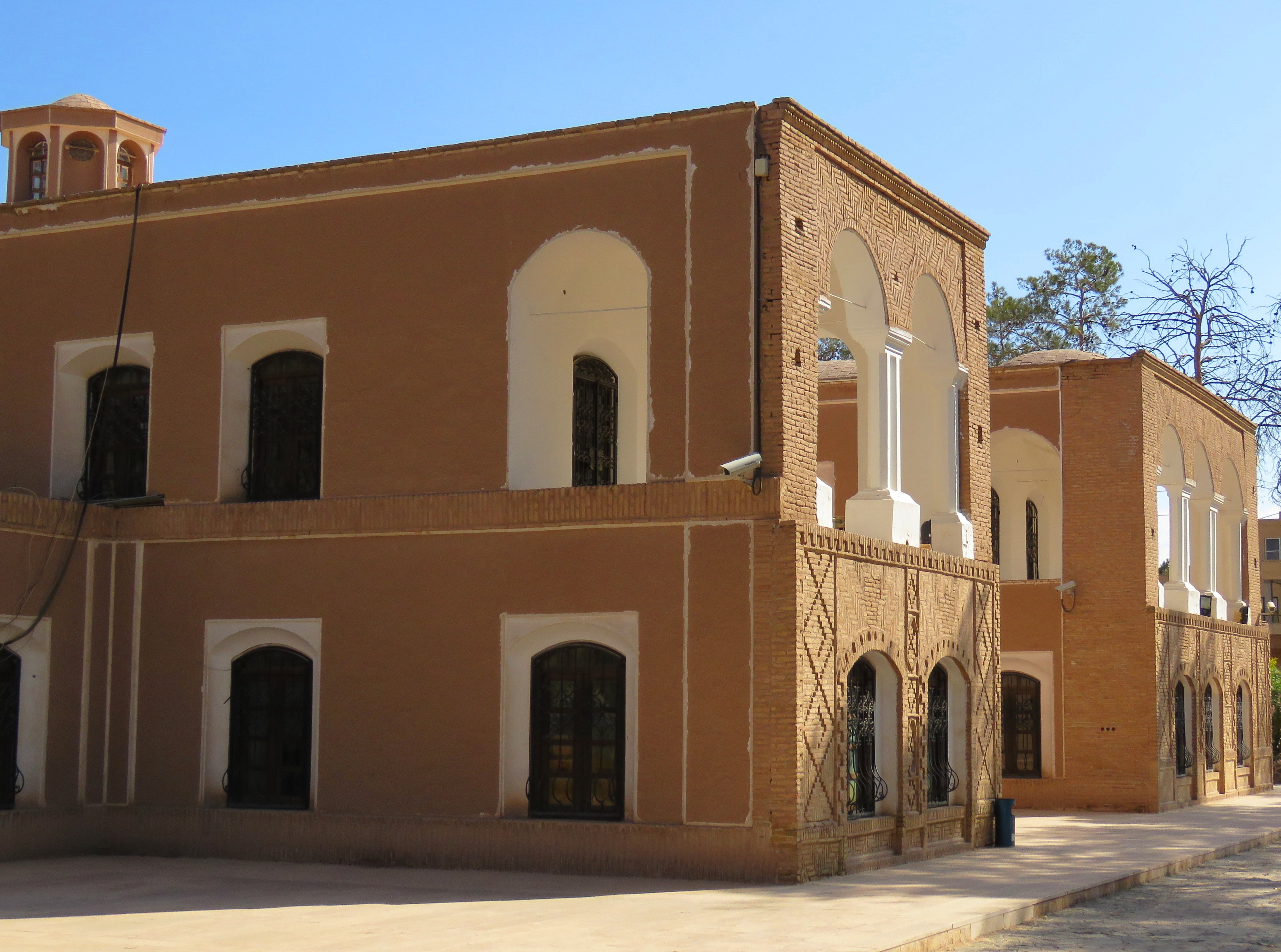 Harandi Garden